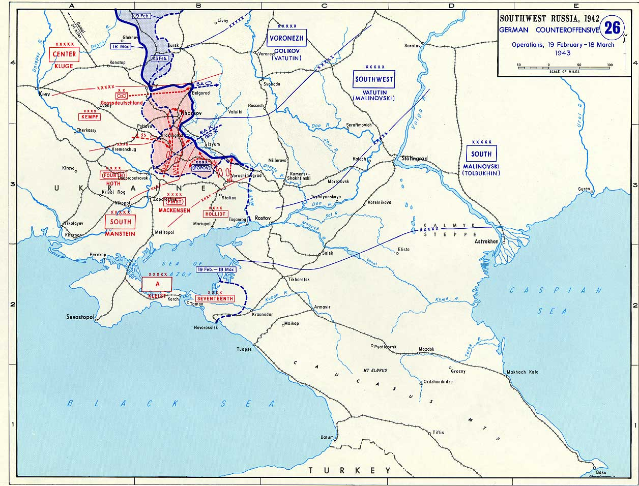 Map of the Third Battle of Kharkov